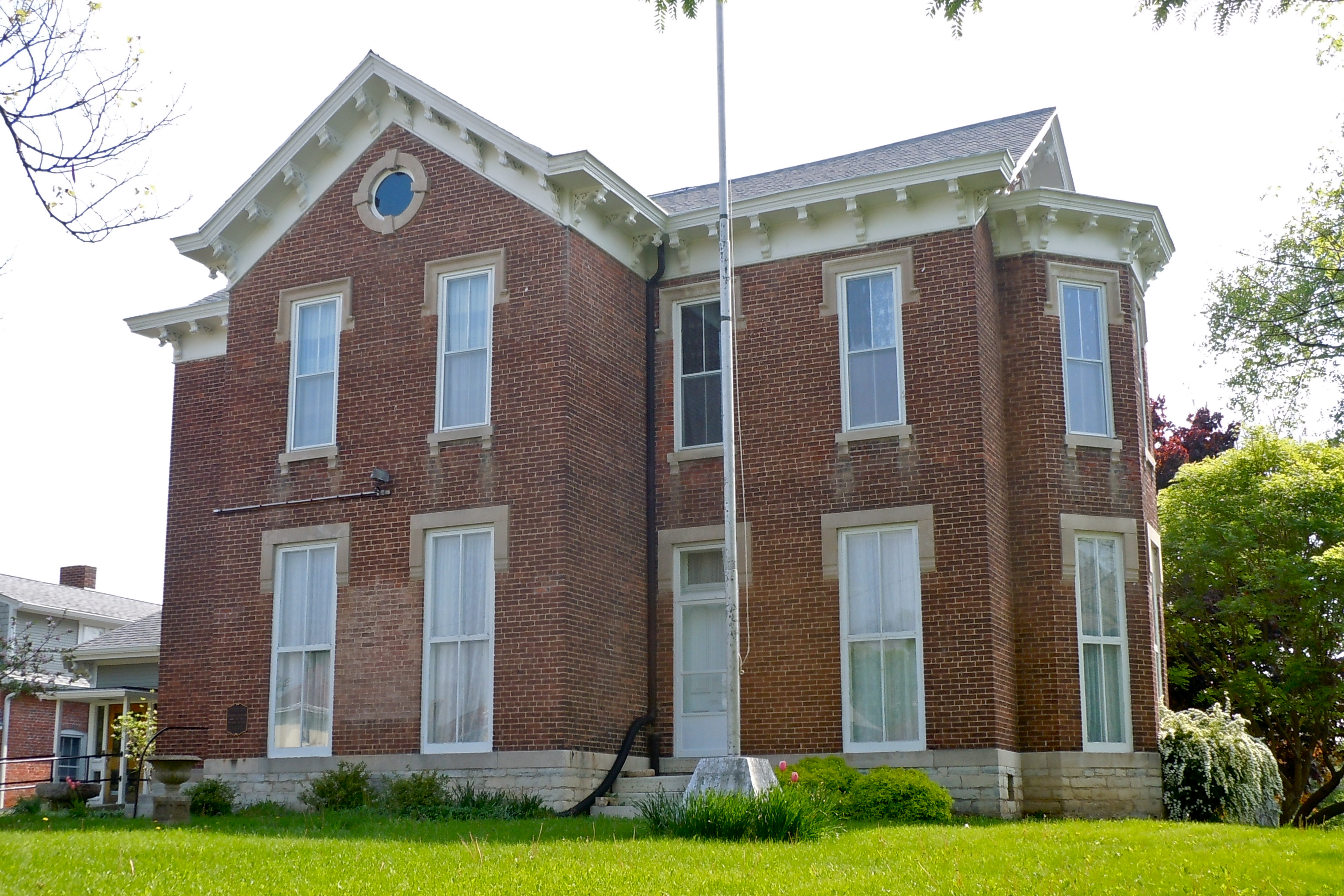 Gen. William Grose House on the NRHP since June 23, 1983. At 614 S. 14th St., New Castle, Indiana. Houses the Henry County Historical Society.